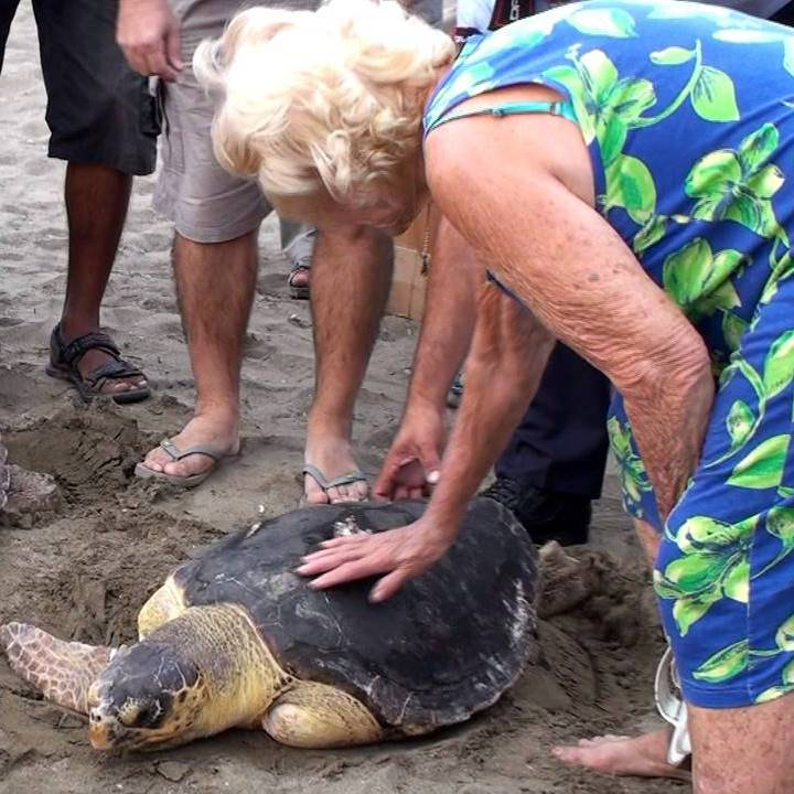 "Kaptan" June at the release of a rehabilitated loggerhead turtle at Iztuzu Beach